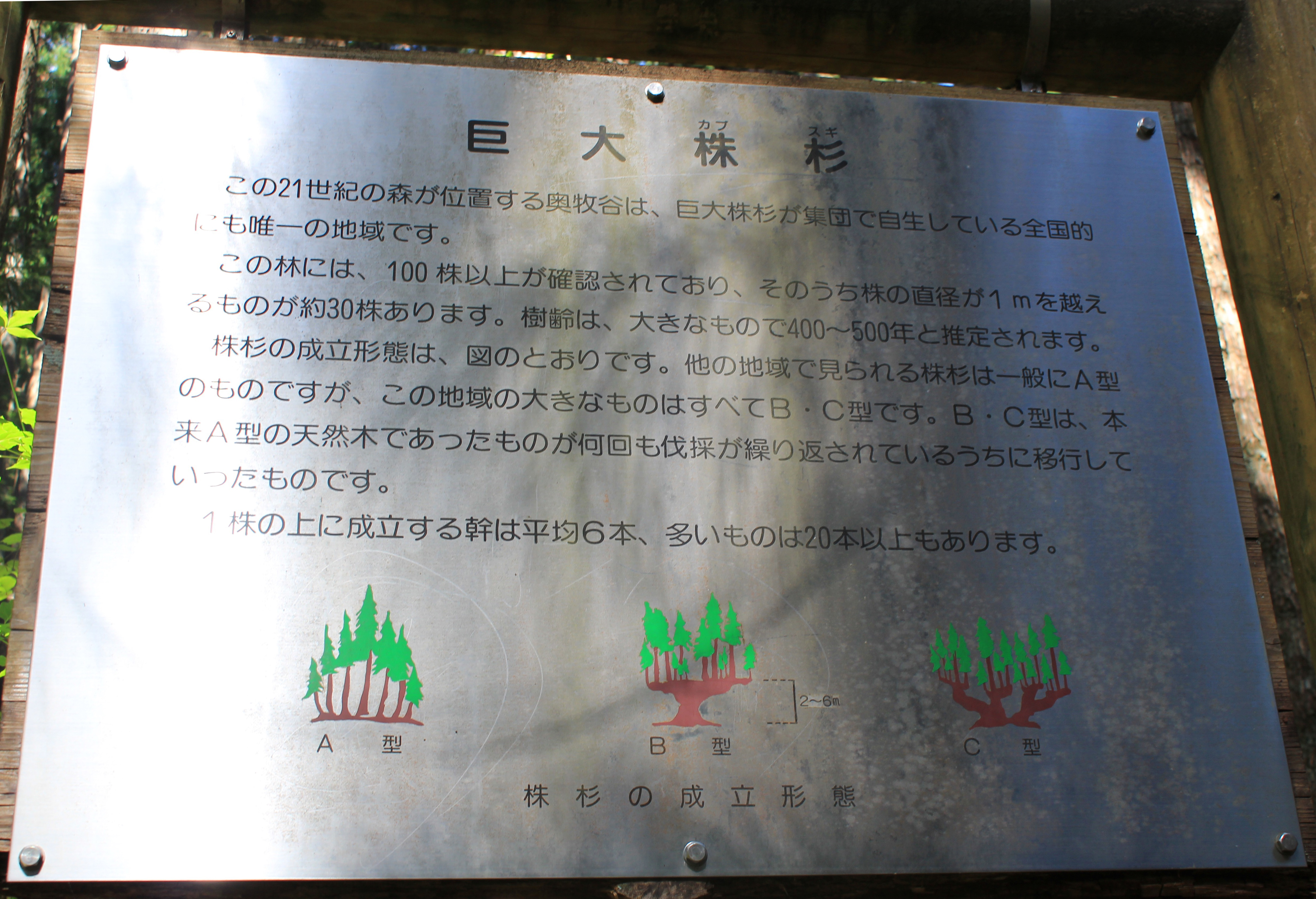 This photo is a cedar of descriptive text that live in clusters.